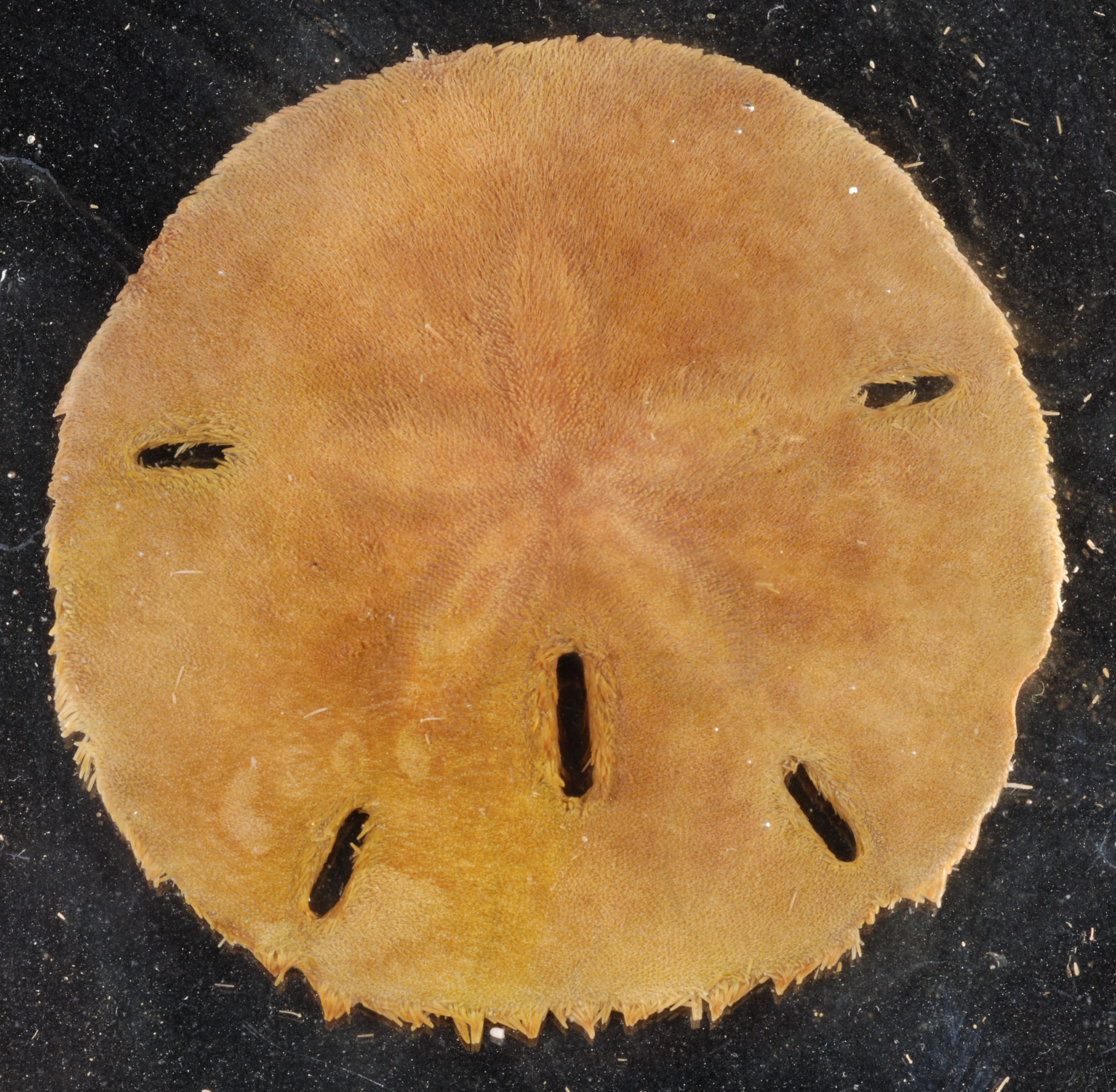 Mellita isometra, keyhole sand dollar, 42mm. Lower Chesapeake Bay, Middle Ground, Northampton County, VA - 12/17/13. Caught by Winter Blue Crab Dredge Survey. Photo by Robert Aguilar, Smithsonian Environmental Research Center.